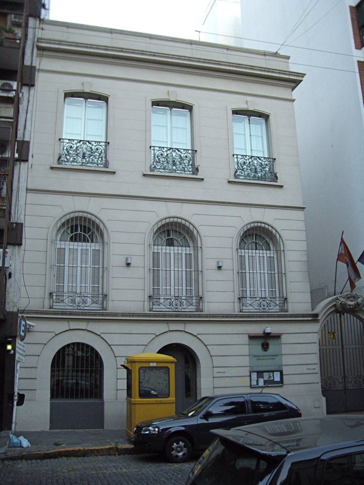 Austrian Embassy. French 3671, Buenos Aires.